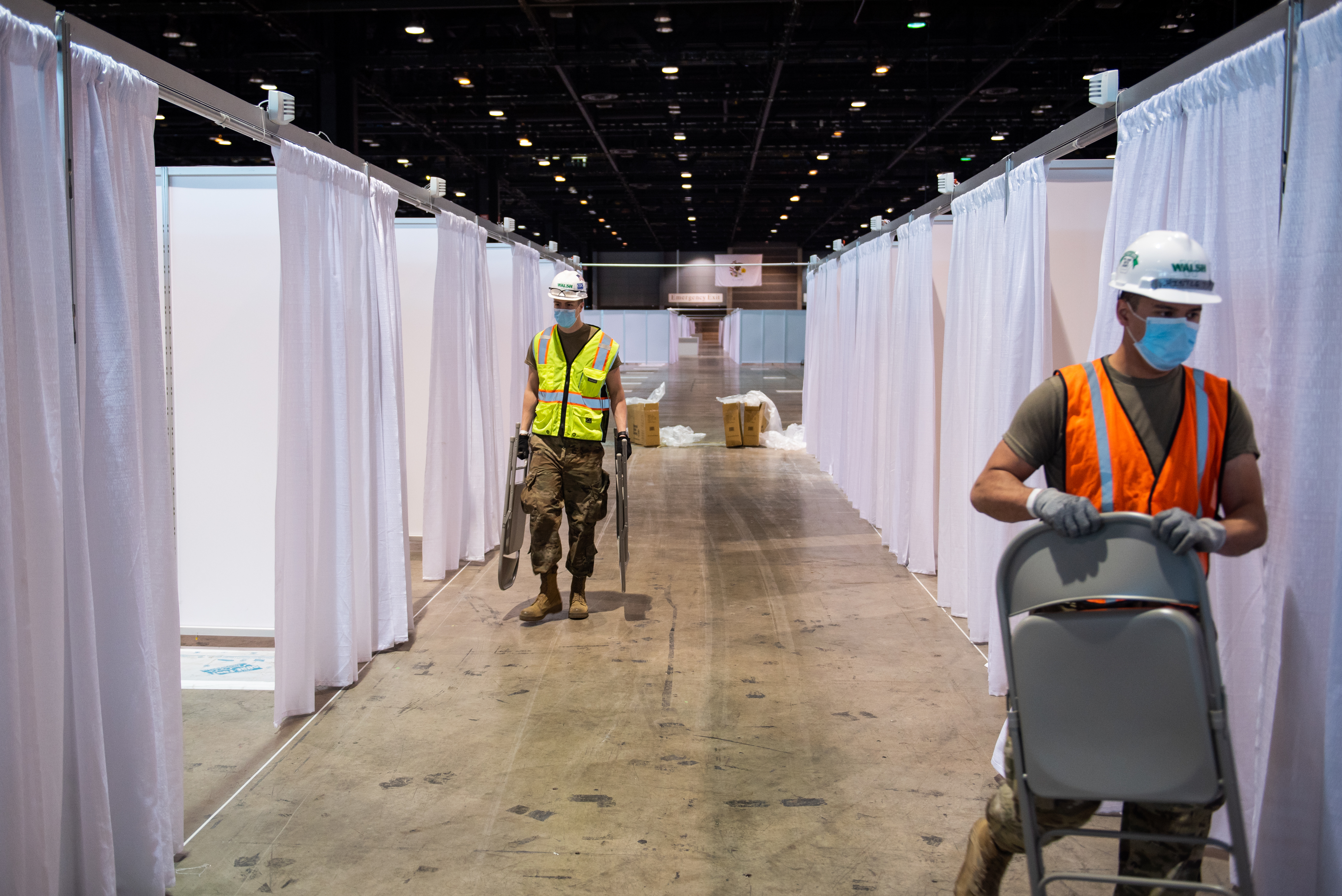 Members of the Illinois Air National Guard assemble equipment at the McCormick Place Convention Center in response to the COVID-19 pandemic in Chicago, Ill., April 8, 2020. Approximately 60 members of the Illinois Air National Guard were activated to support the US Army Corps of Engineers and the Federal Emergency Management Agency (FEMA) to temporarily convert part of the McCormick Place Convention Center into an Alternate Care Facility (ACF) for COVID-19 patients with mild symptoms who do not require intensive care in the Chicago area. (U.S. Air Force Photo by Senior Airman Jay Grabiec)